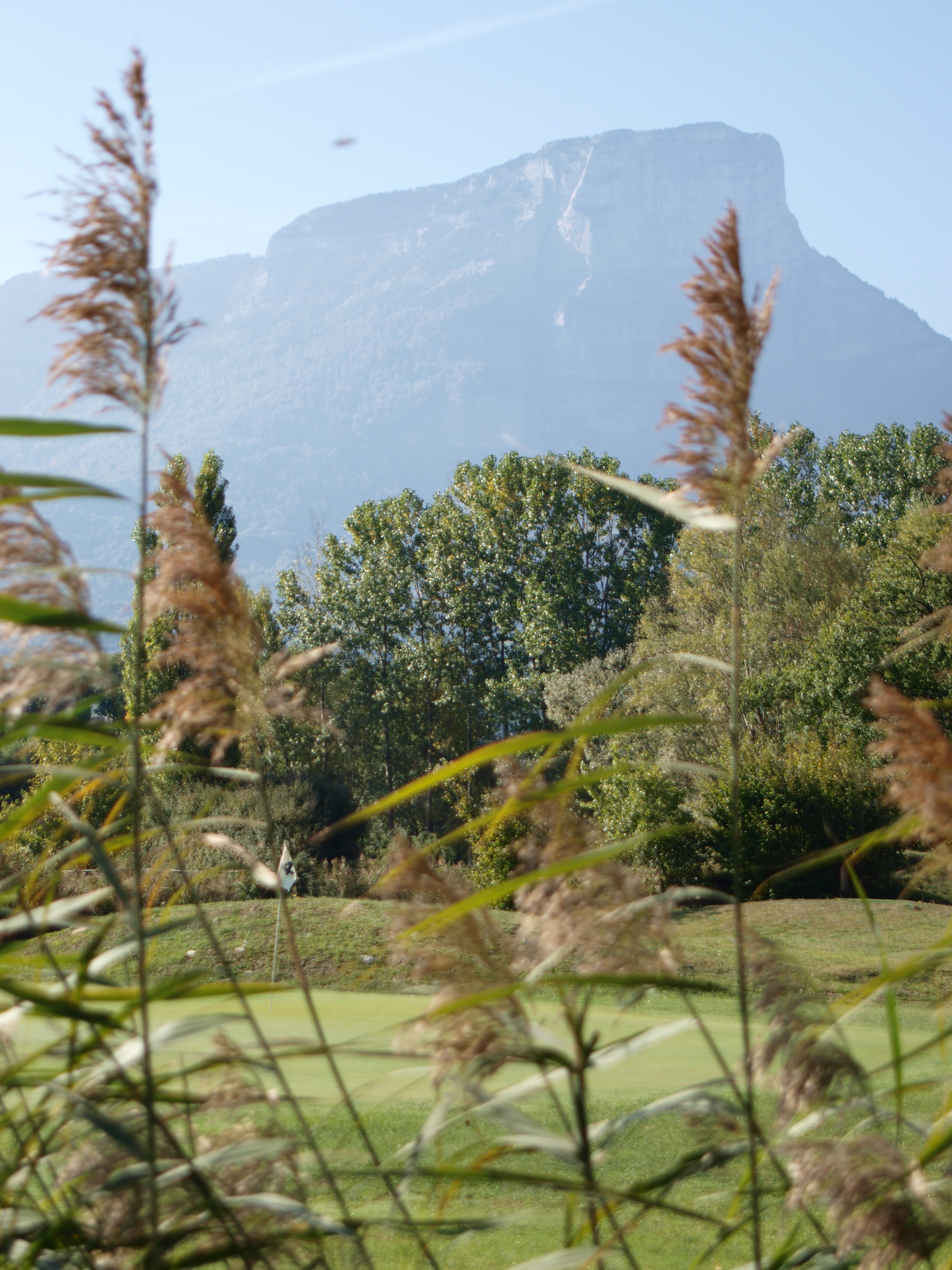 Green of Apremont's golf course.